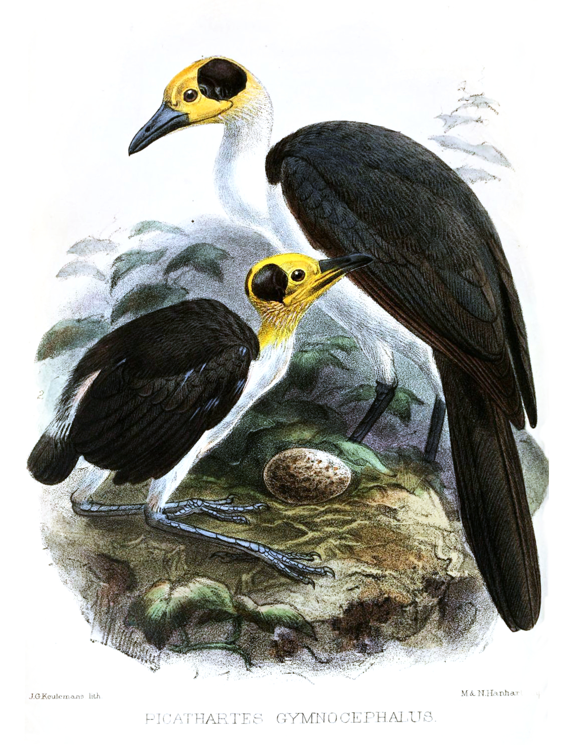 « Picathartes gymnocephalus » = Picathartes gymnocephalus (White-necked Rockfowl) - adult, juvenile and egg